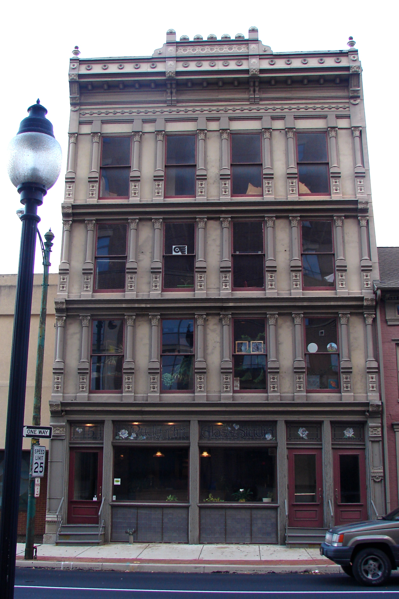 York Dispatch Newspaper Offices on the NRHP since March 8, 1978. At 15 and 17 East Philadelphia Street, York, York County, Pennsylvania. The newspaper is still publishing, but not from this address.